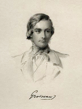 An engraving of Hugh Lupus Grosvenor, 1st Duke of Westminster by William Holt, Jr. based on a painting by George Richmond, cropped and enhanced by myself